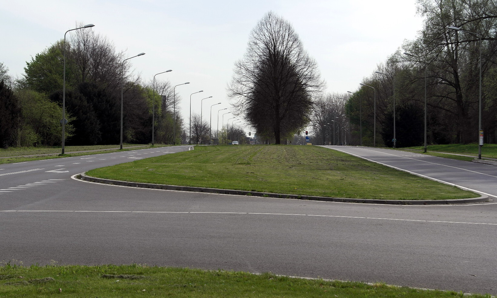 Maastricht, the Netherlands. View towards the east of Via Regia, the main through road in Maastricht-West. The parkway at this point divides the Van de Vennepark in a northern section (Malberg and Malpertuis) and a southern section (Pottenberg and Dousberg).